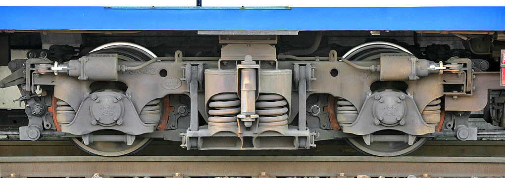 Sumitomo Metal Industries type FS-342T bogie truck of Izuhakone 1100 series EMU ( Kuha 2006 )